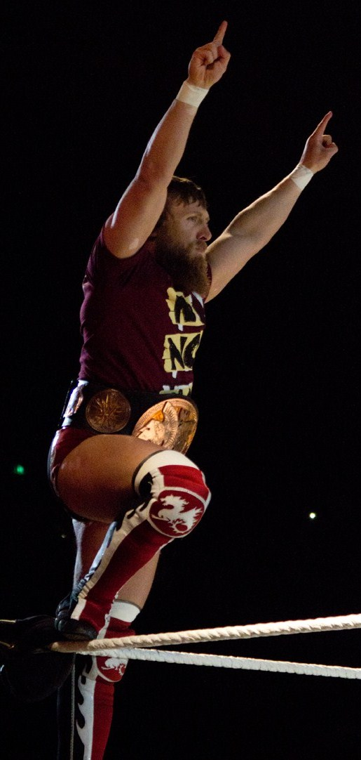 Daniel Bryan, with his Tag Team Championship, during a WWE house show on February 2, 2013 in Montgomery, Alabama.